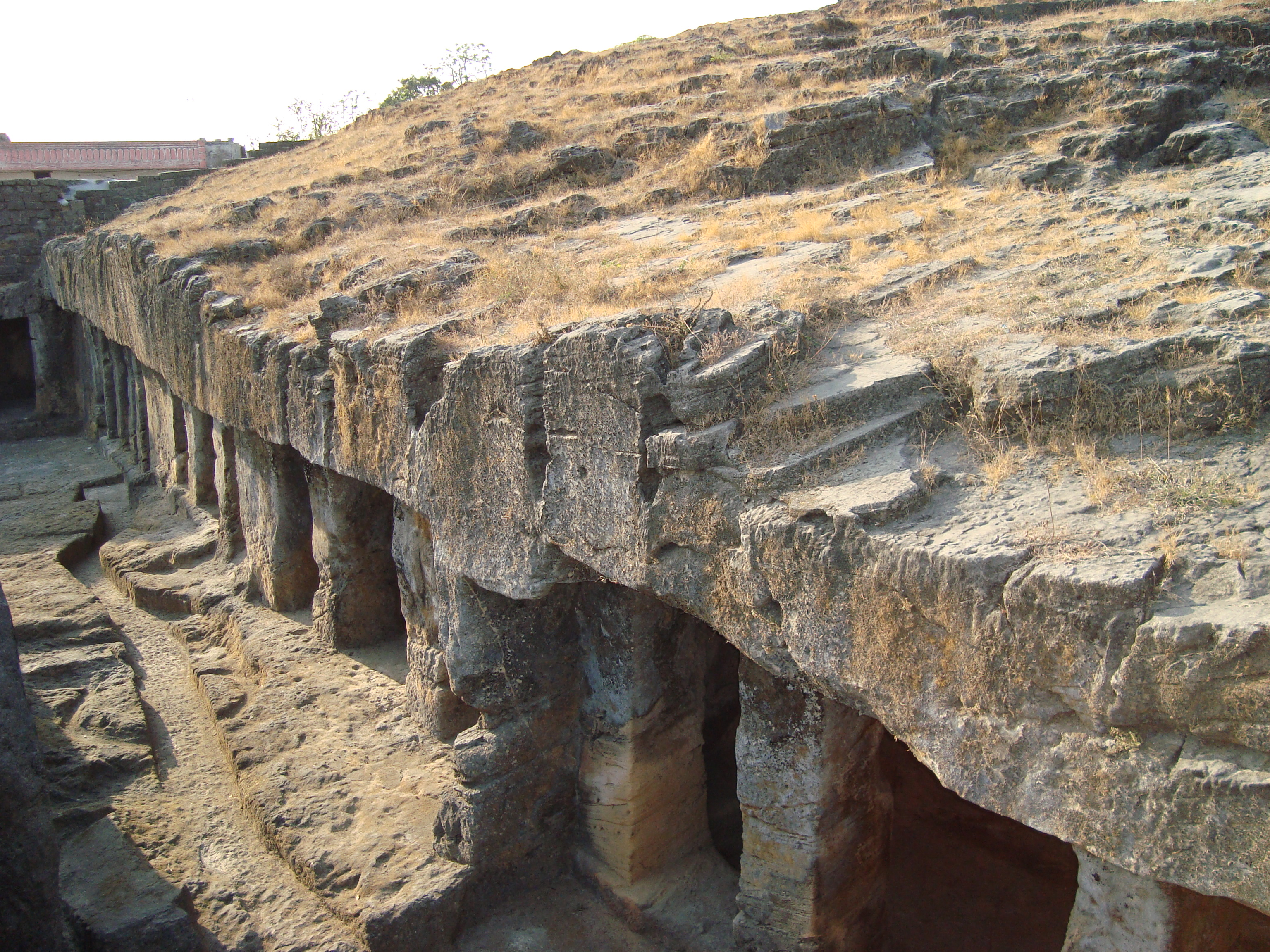 Bava Pyara caves of Junagadh Buddhist Cave Groups. Junagadh, Gujarat, India. ગુજરાતી: બાબા પ્યારેની ગુફાઓ, જૂનાગઢ, ગુજરાત, ભારત.